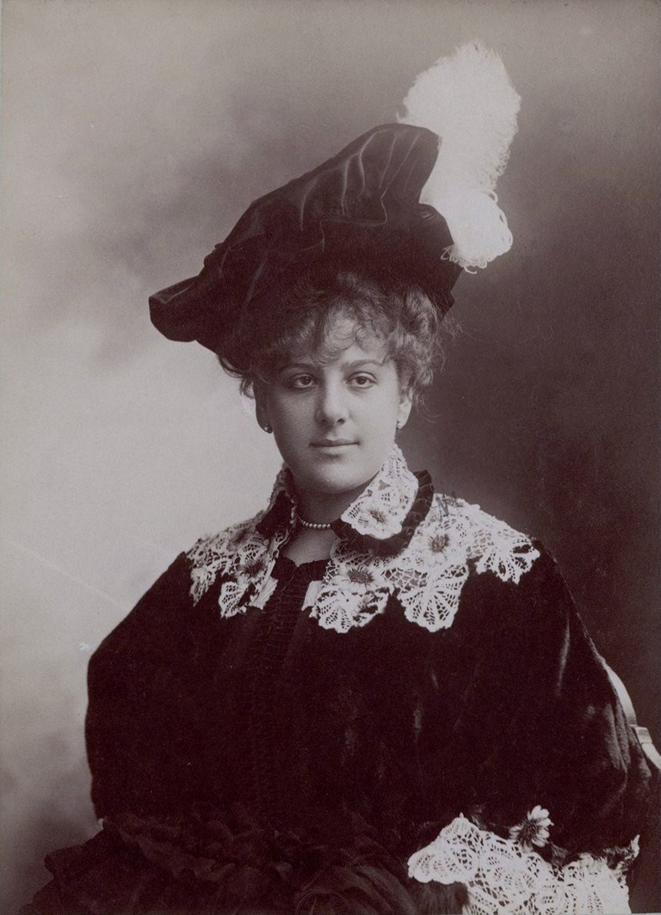 Lucy Arbell, born Georgette Gall-Wallace, is a french mezzo-soprano lyricist and opera singer.